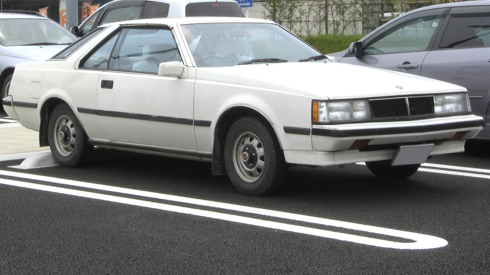 Toyota Corona 2-door Hardtop (1983-1985)